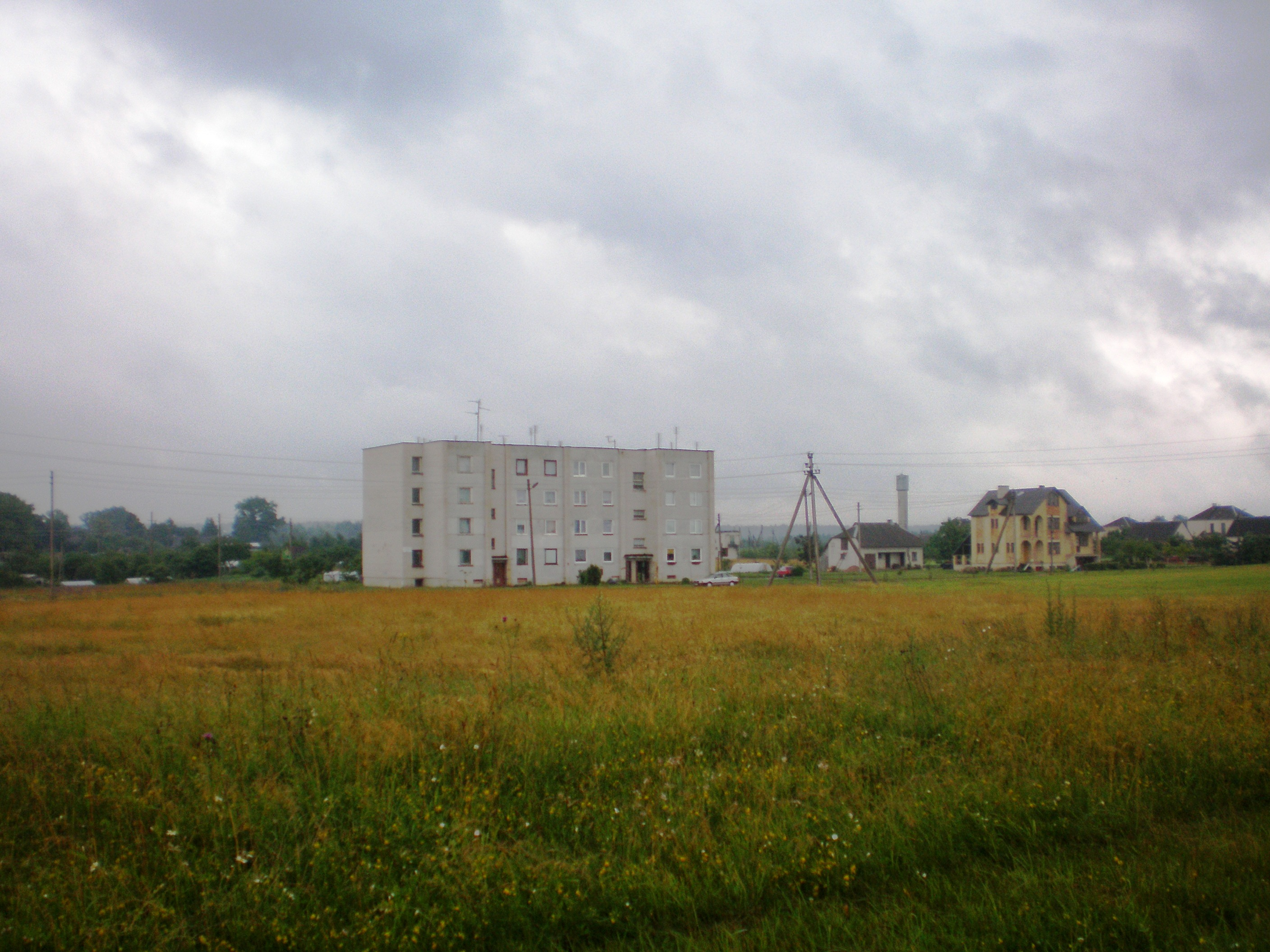 Šventupė village in Lithuania